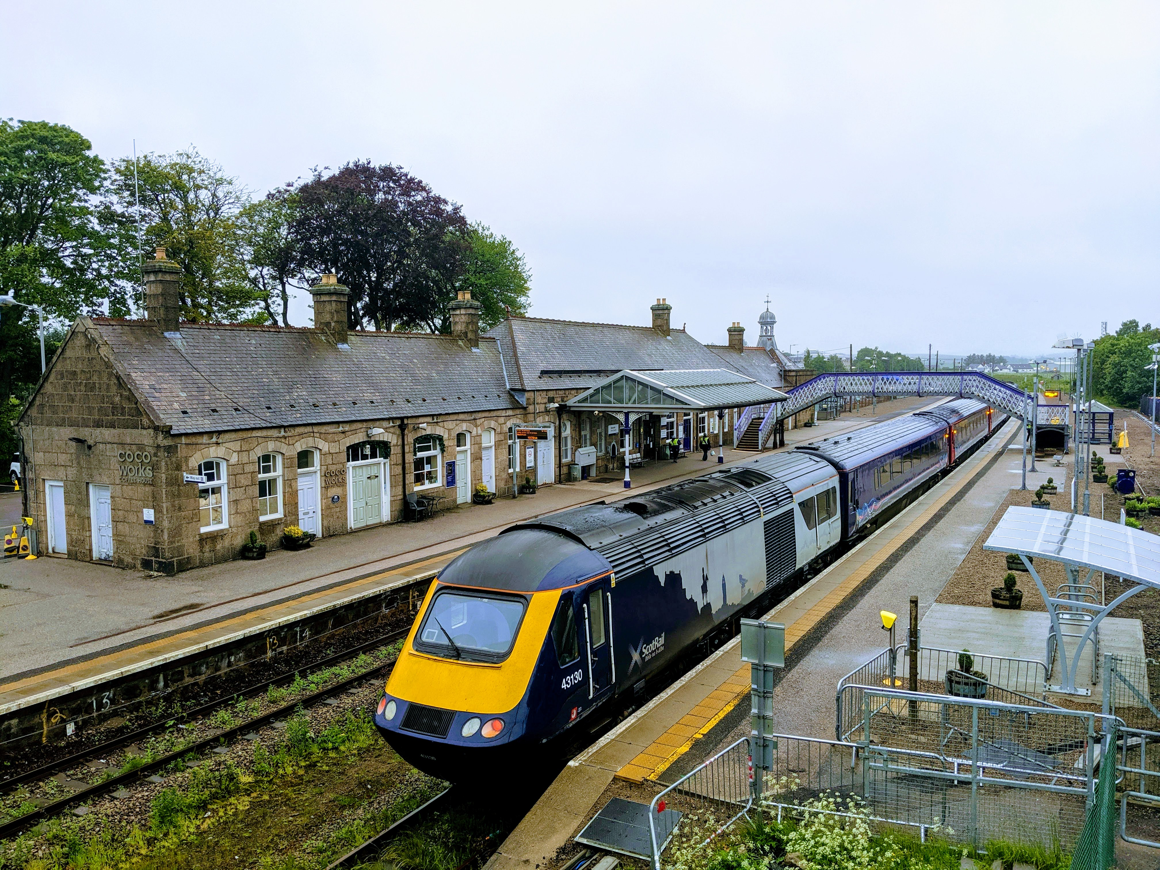 Class 43 HST at Inverurie train station, June 2019